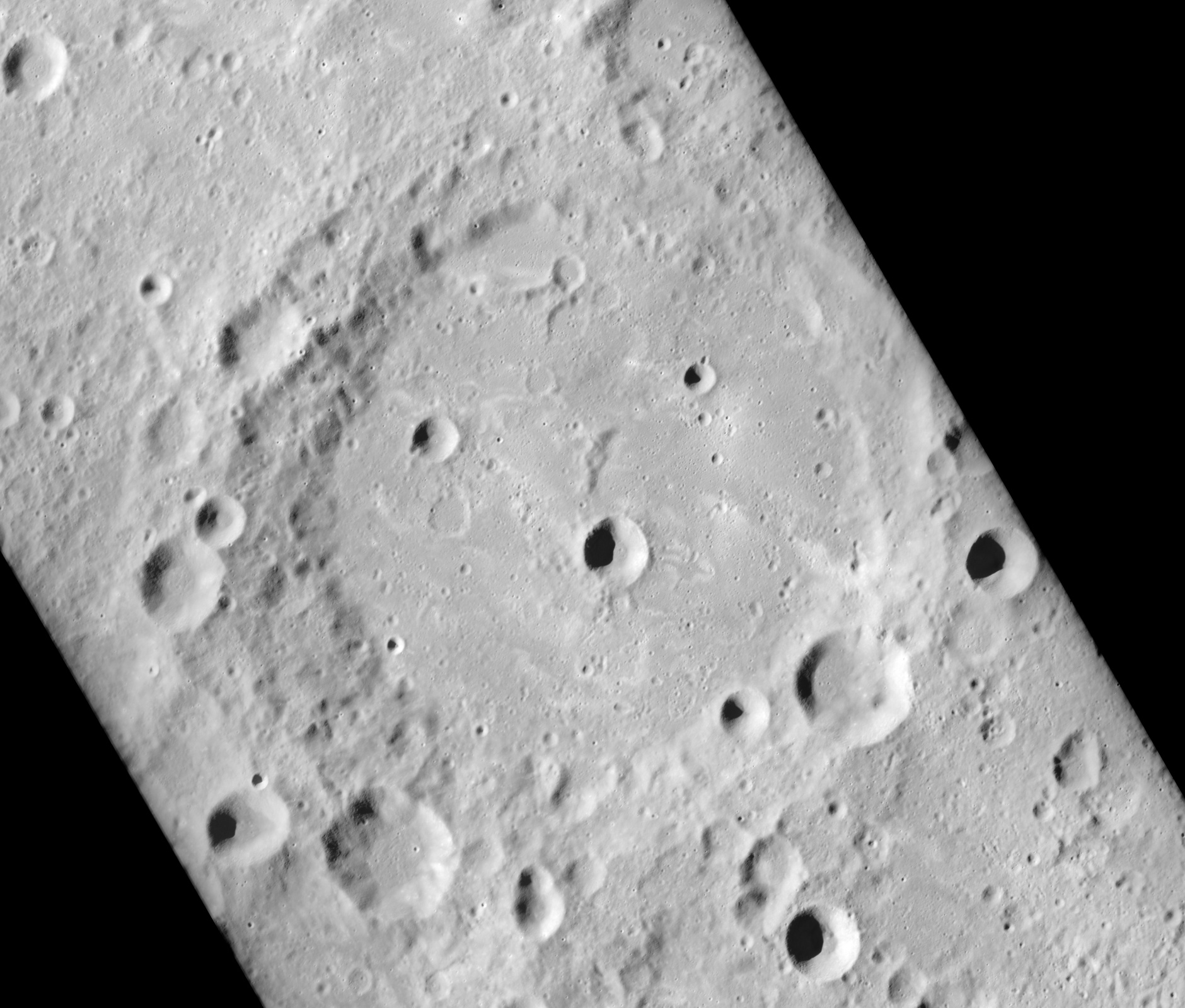 Fleming, on the far side of the moon. Rotated so that north is at top.